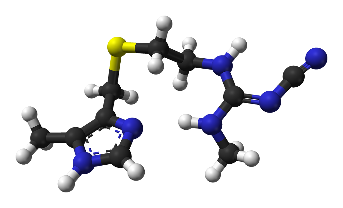 Ball-and-stick model of the cimetidine molecule. X-ray crystallographic data from R. J. Cernik, A. K. Cheetham, C. K. Prout, D. J. Watkin, A. P. Wilkinson and B. T. M. Willis (1991). "The structure of cimetidine (C10H16N6S) solved from synchrotron-radiation X-ray powder diffraction data". Journal of Applied Crystallography 24: 222-226.